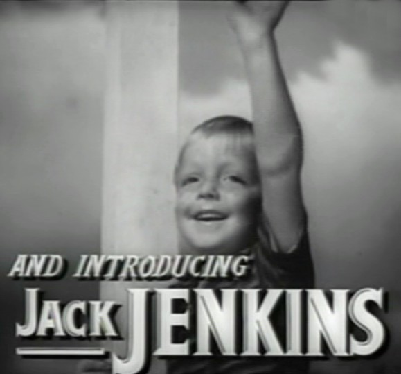 Cropped screenshot of Jackie 'Butch' Jenkins from the trailer for the film The Human Comedy.